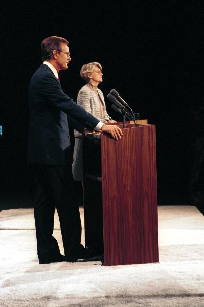 Vice Presidential Debate with George H. W. Bush and Geraldine Ferraro, Philadelphia, PA